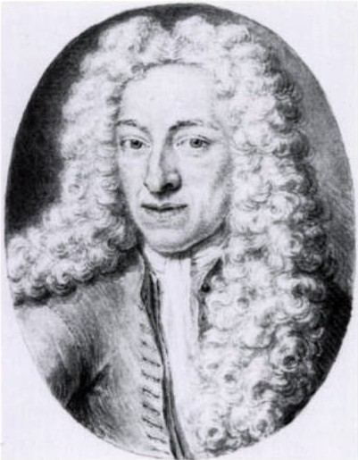 Caspar Commelijn (1668-1731), watercolour & crayon